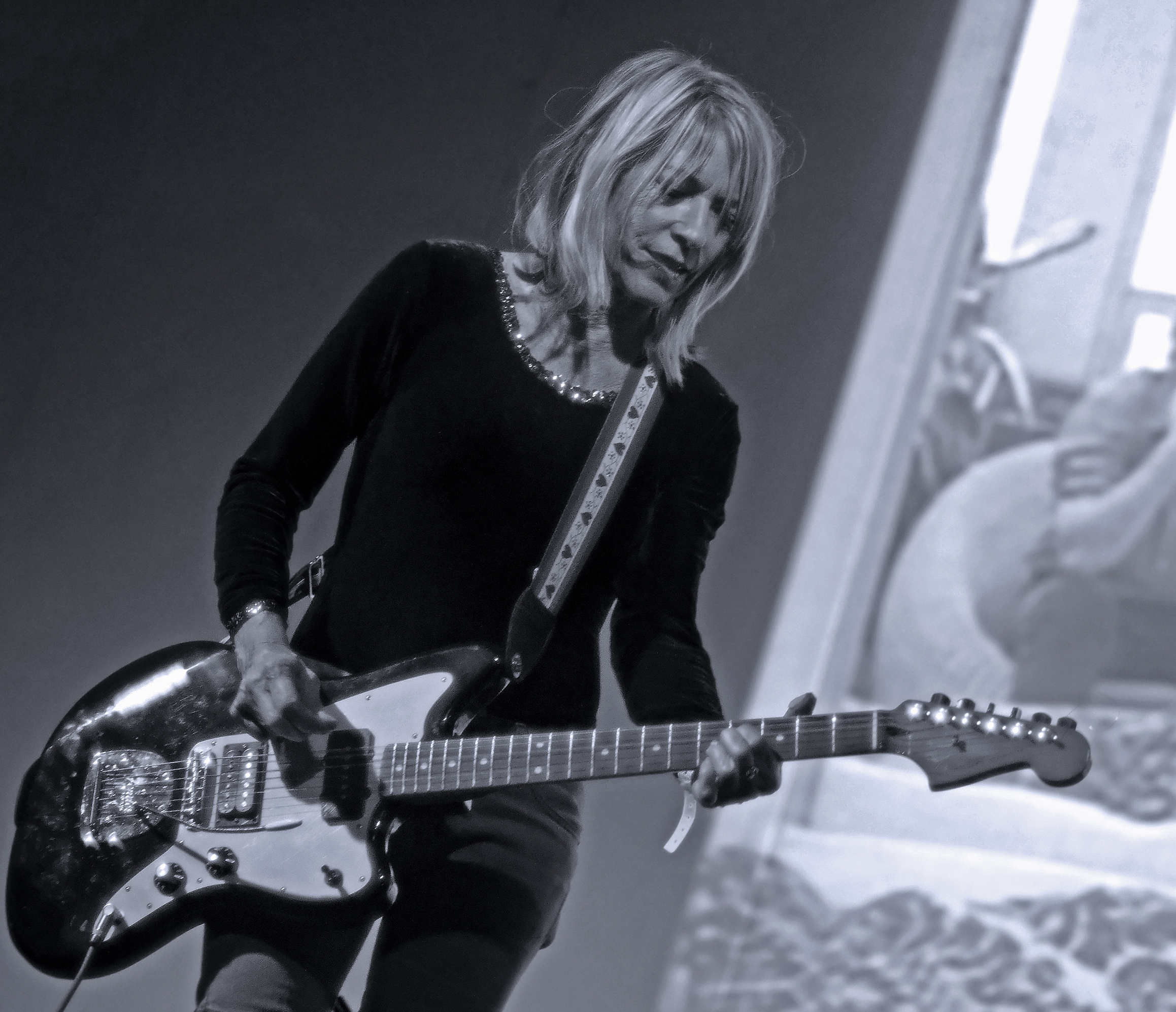 21st October 2012